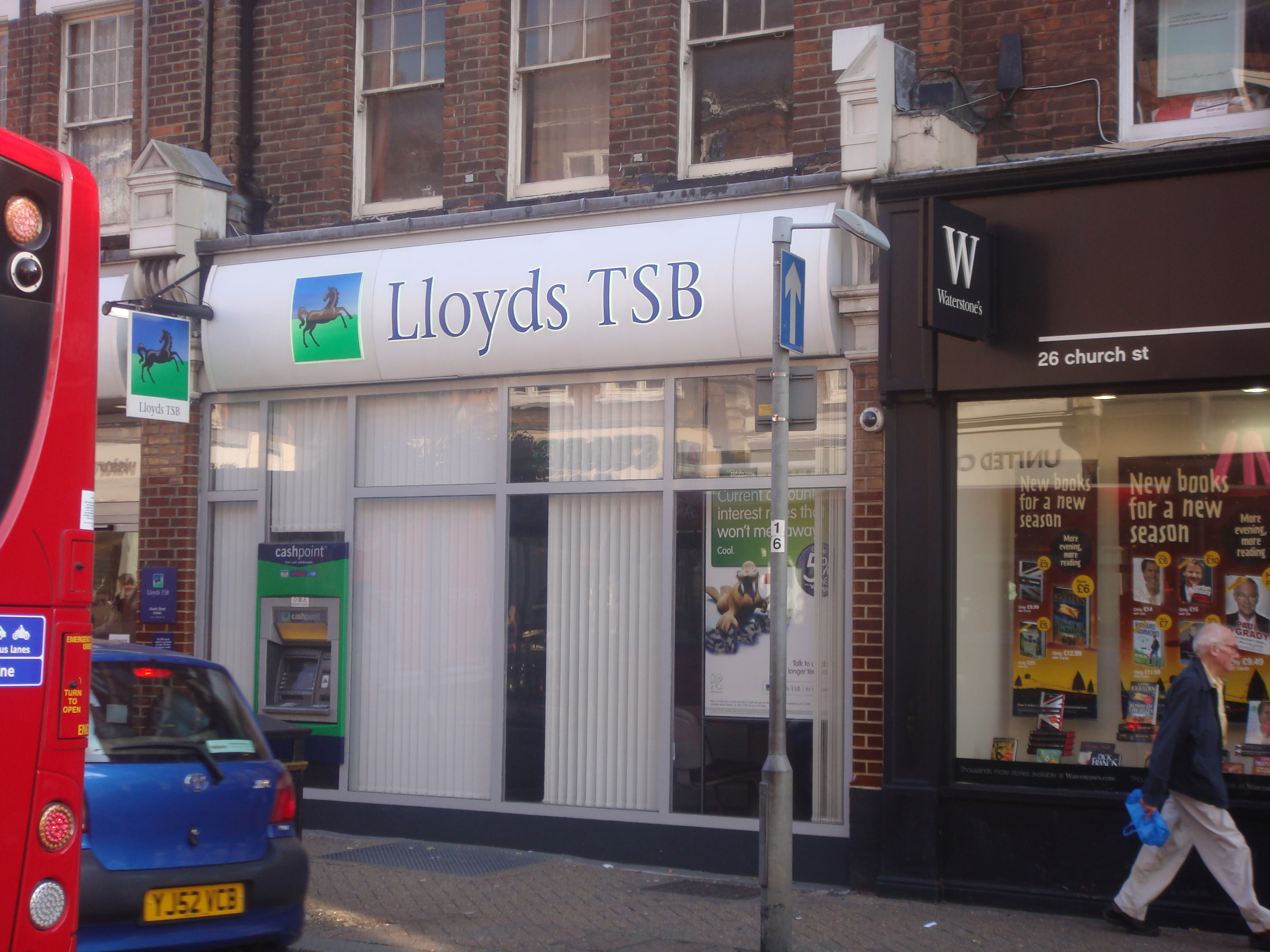 A Lloyds TSB bank branch in Enfield, London.